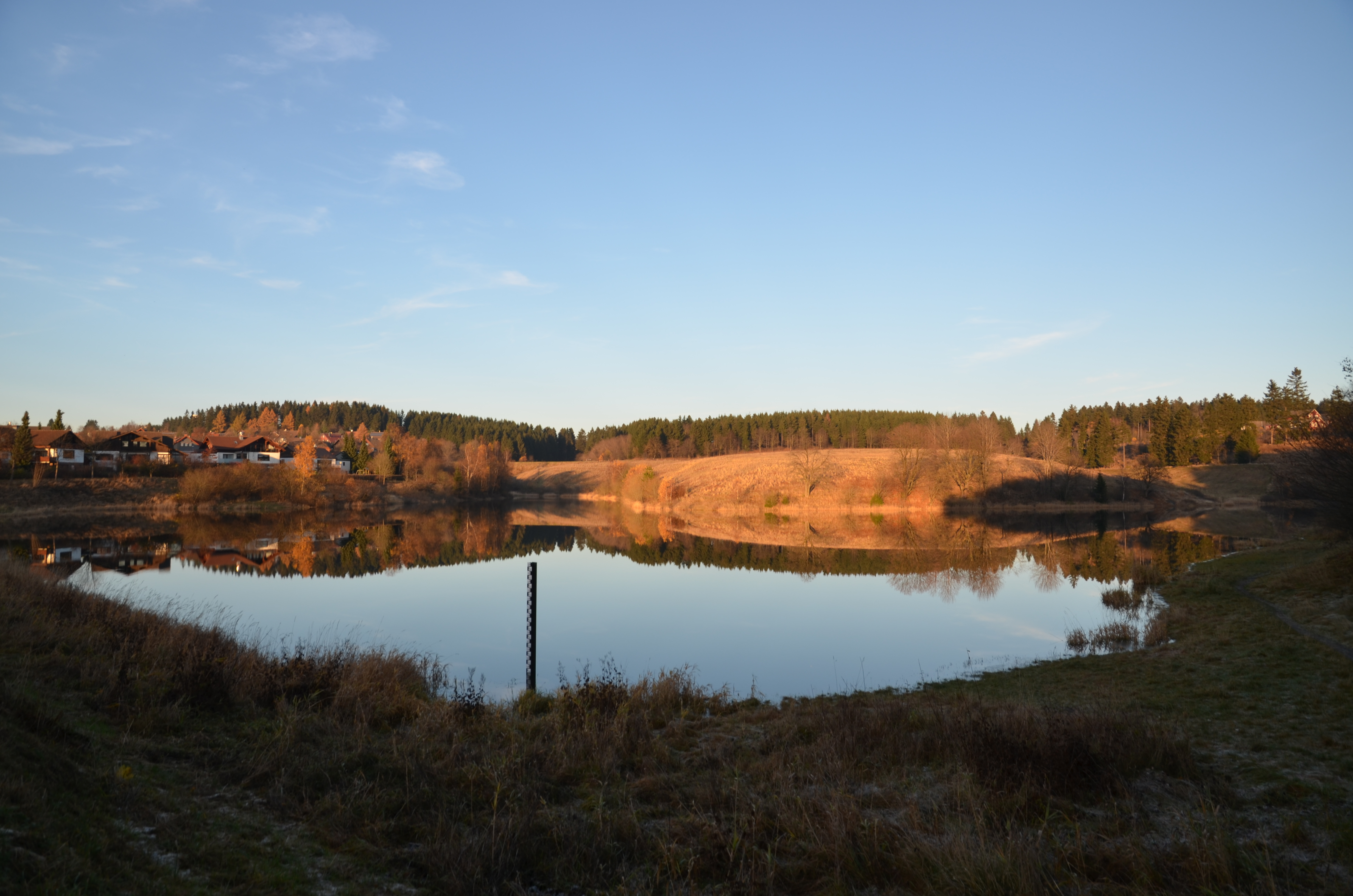 The "Unterer Eschenbacher Teich" near Clausthal-Zellerfeld in Germany in Autumn.